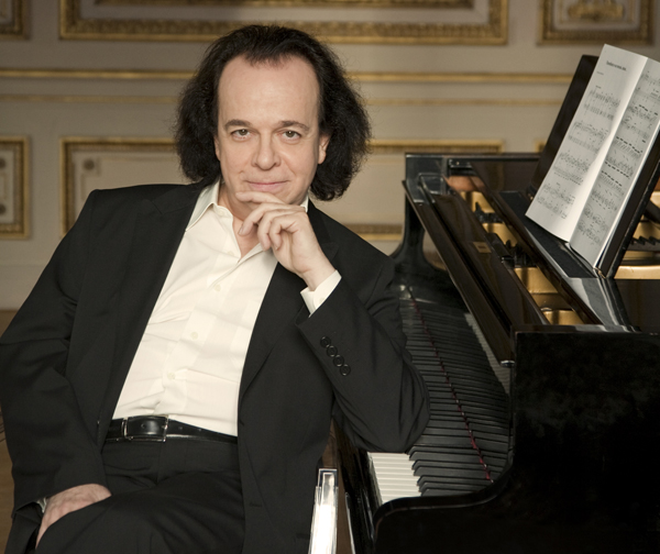 Cyprien Katsaris' official picture.